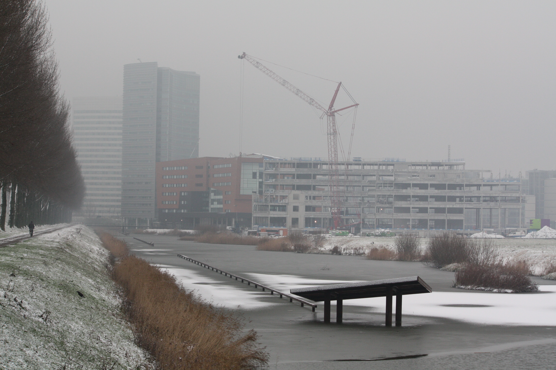 The skyline of Hoofddorp in the snow. With the headquarters of TNT u/c.